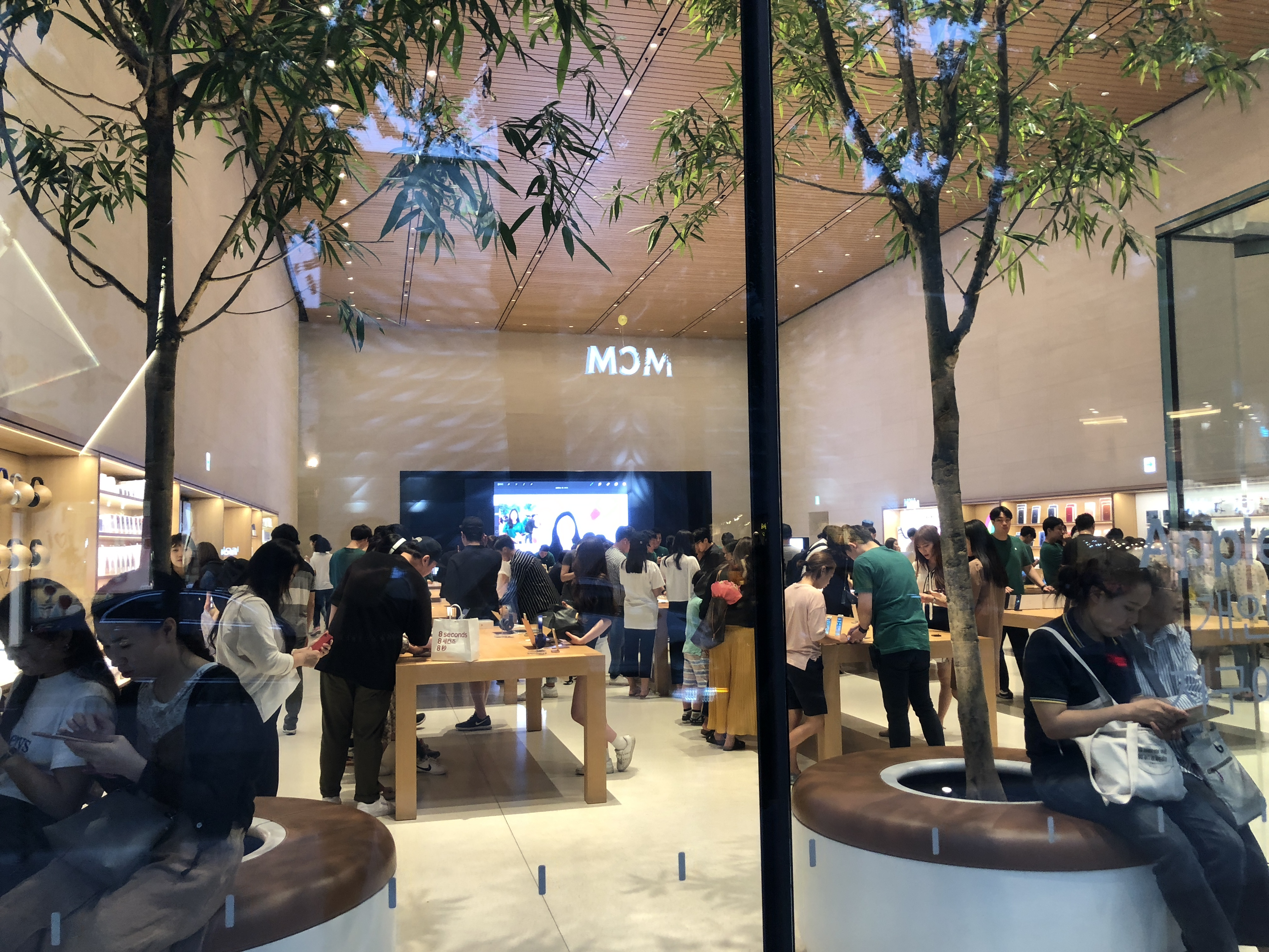 Apple Garosugil